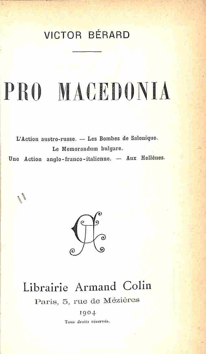 Pro Macedonia